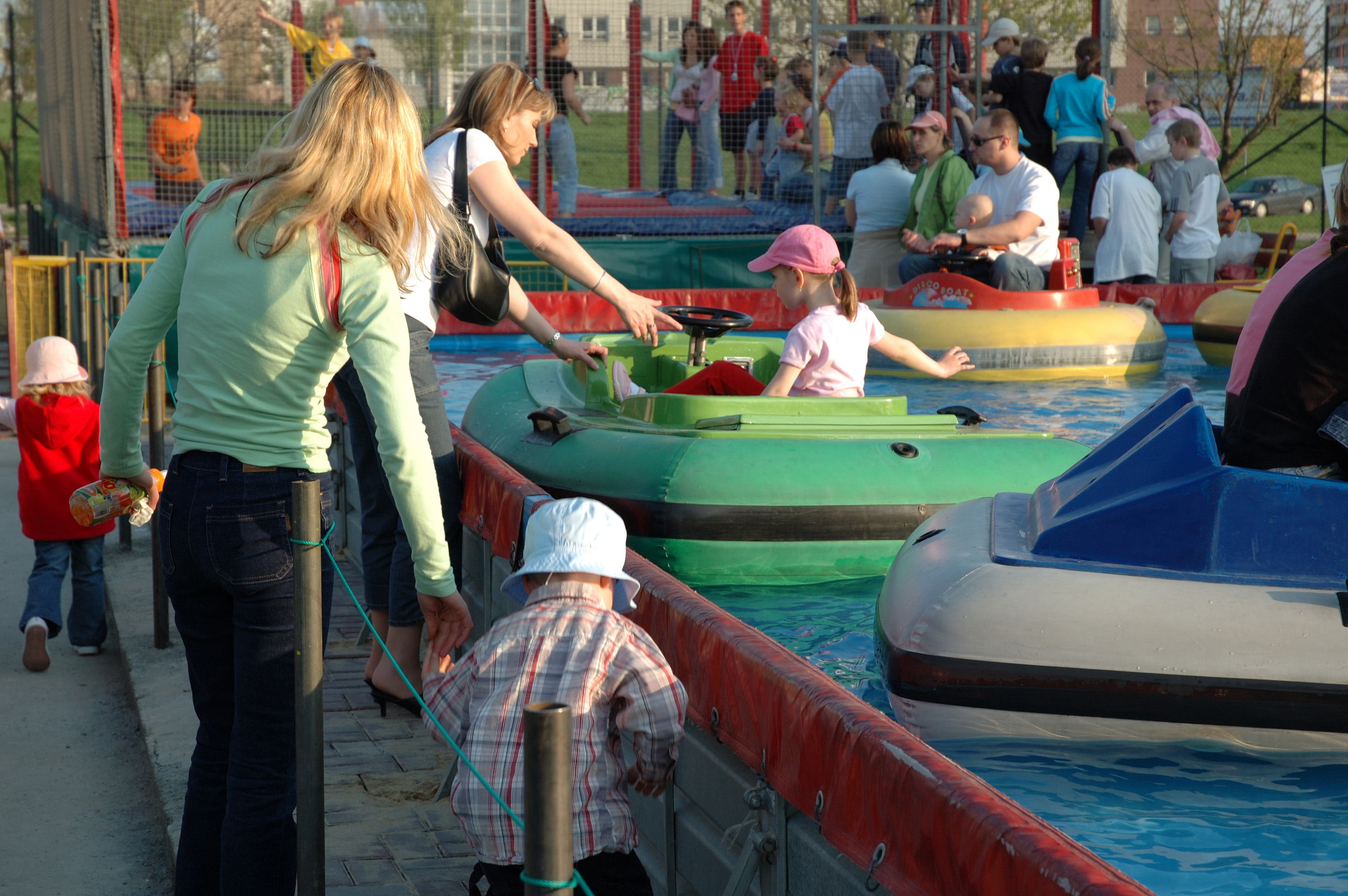 Playground nearby the lake Štrkovec in Bratislava, Slovakia. Author: Radovan Bahna, April 2006